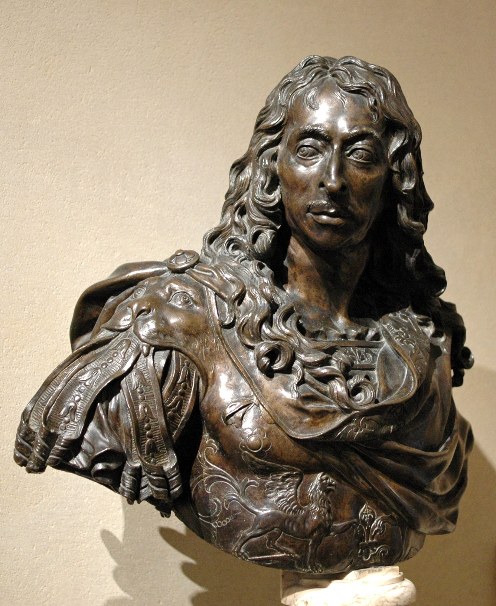 Bust of Louis de Bourbon, Prince of Condé, also known as “le Grand Condé” (1621-1686).